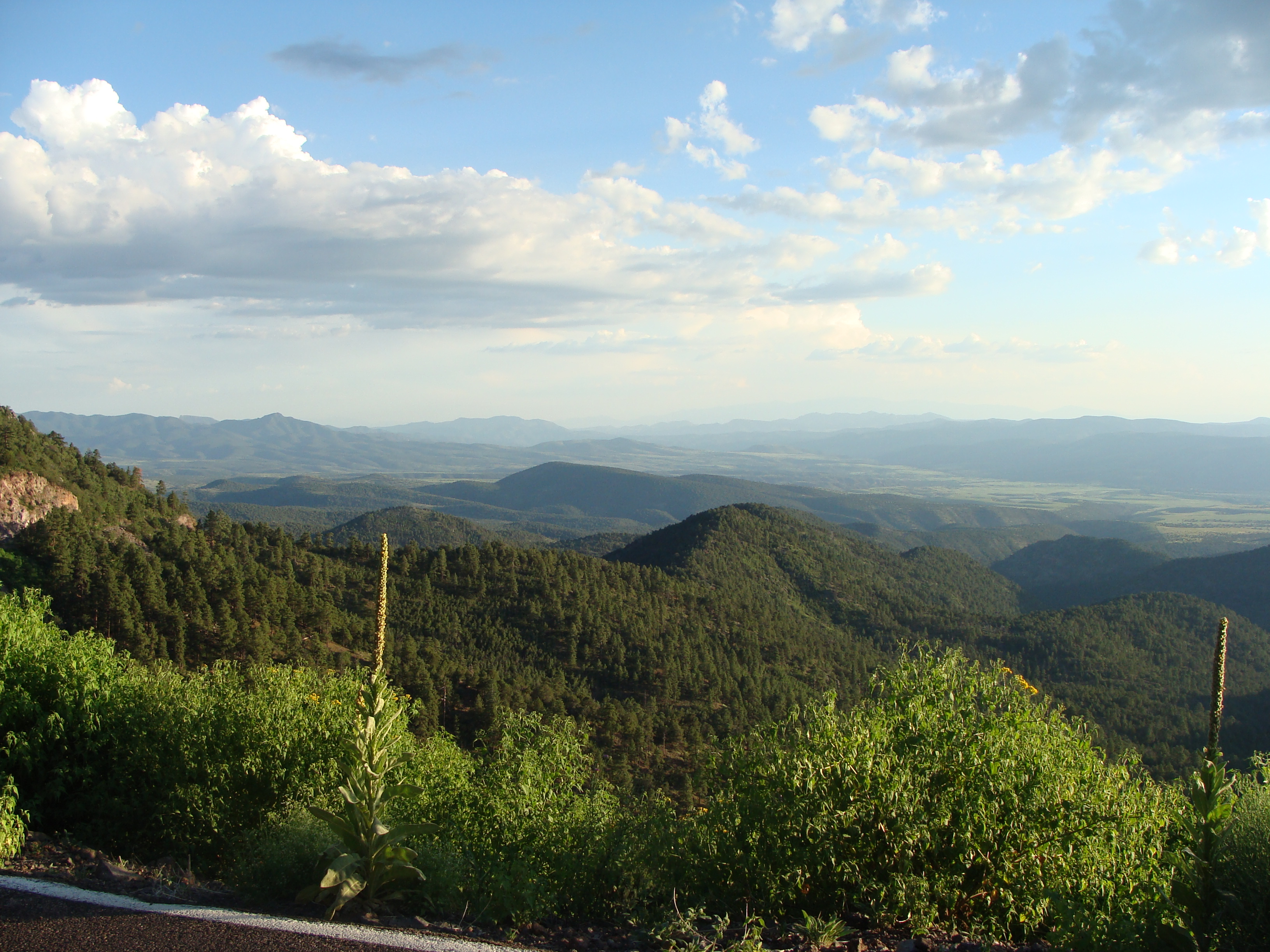 The Apache-Sitgreaves highlands, looking east, going north, on route 191, in Arizona.